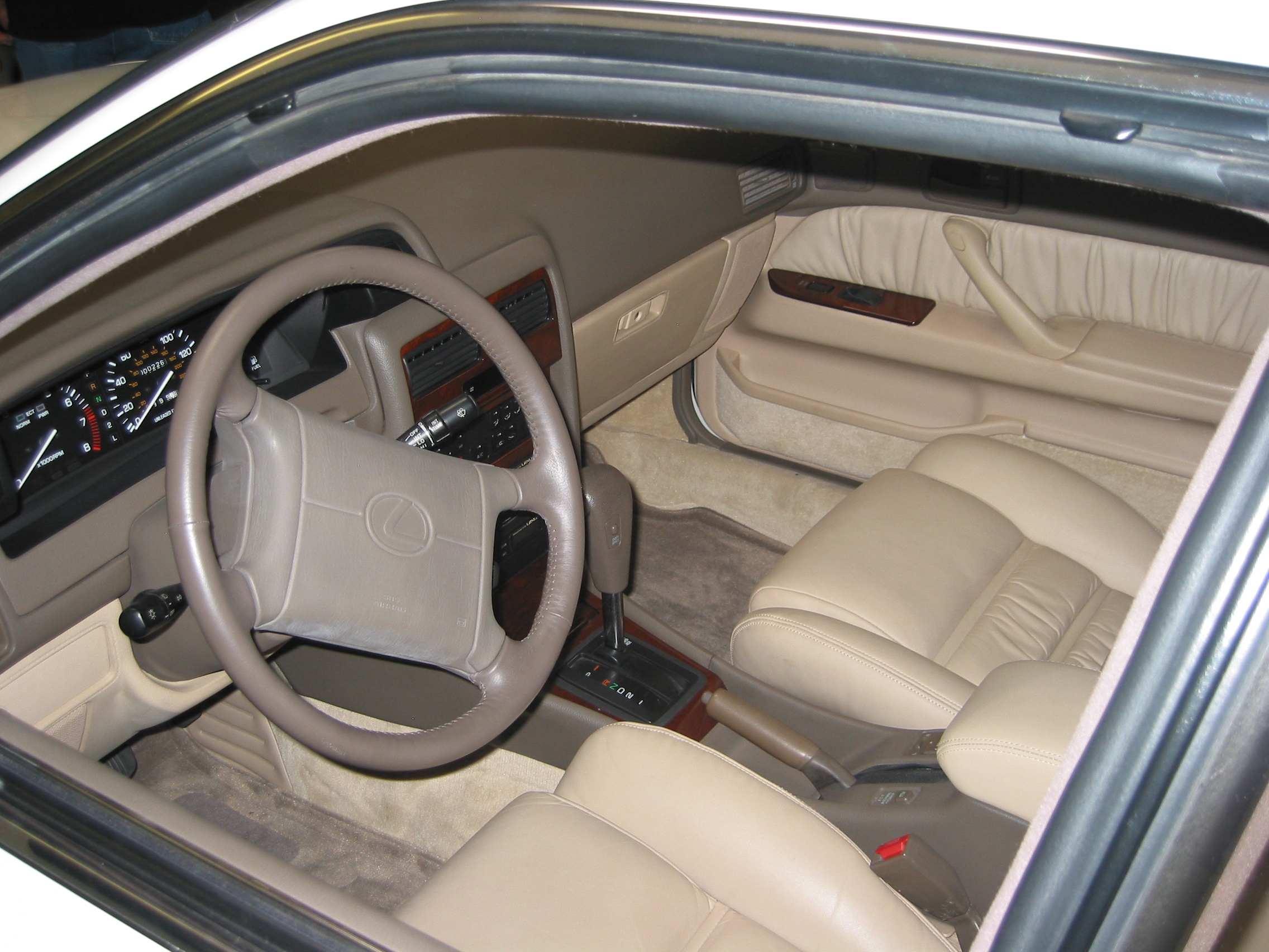 Lexus ES interior